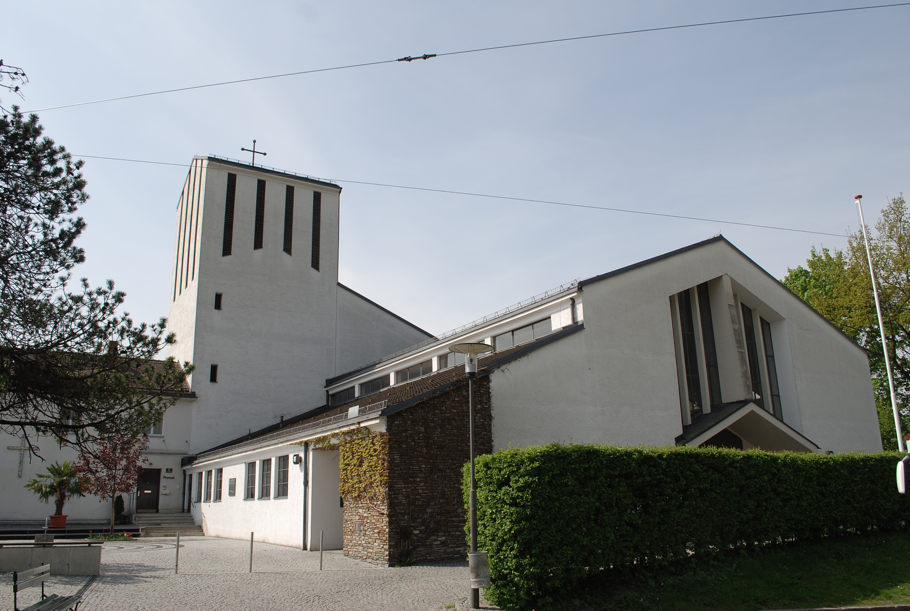 St. George church in Allerheiligen quarter, Innsbruck